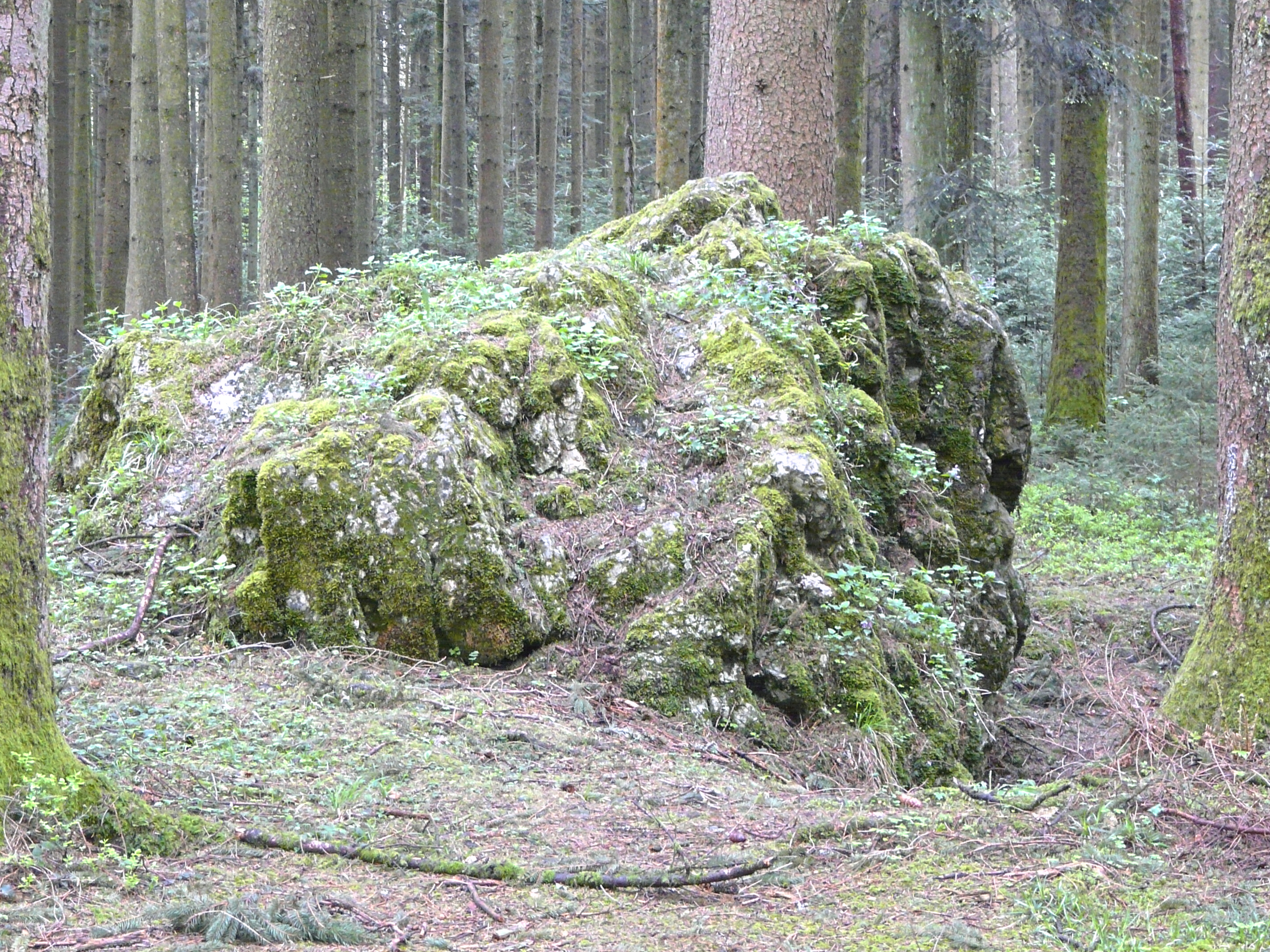 geotope, erratic block, limestone, Wetterstein limestone, Salzach-glacier, late-pleistocene (Tarantian), Geotop Nummer: 189R003